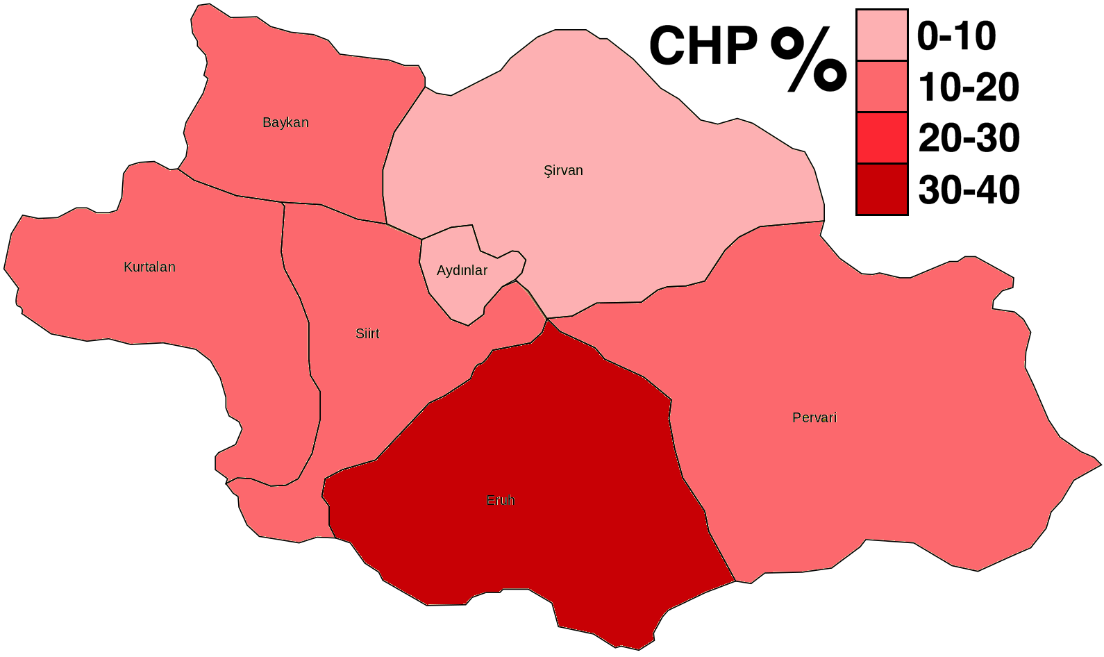 Votes received by the CHP in the 2003 Siirt by-election